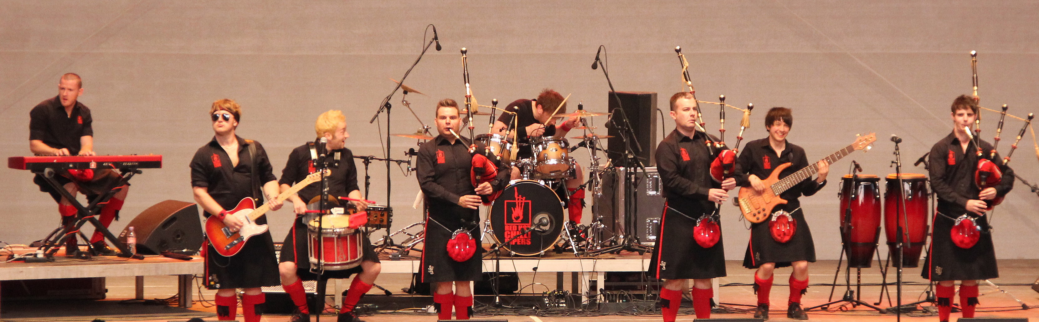 Federal Horticultural Show 2011 in Koblenz - Opening of Kultursommer Rheinland-Pfalz: Red Hot Chilli Pipers